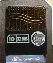 A 32 Megabyte SmartMedia flash card. Derived from Smartmedia on keyboard.jpg - background was removed. Created by uploader.